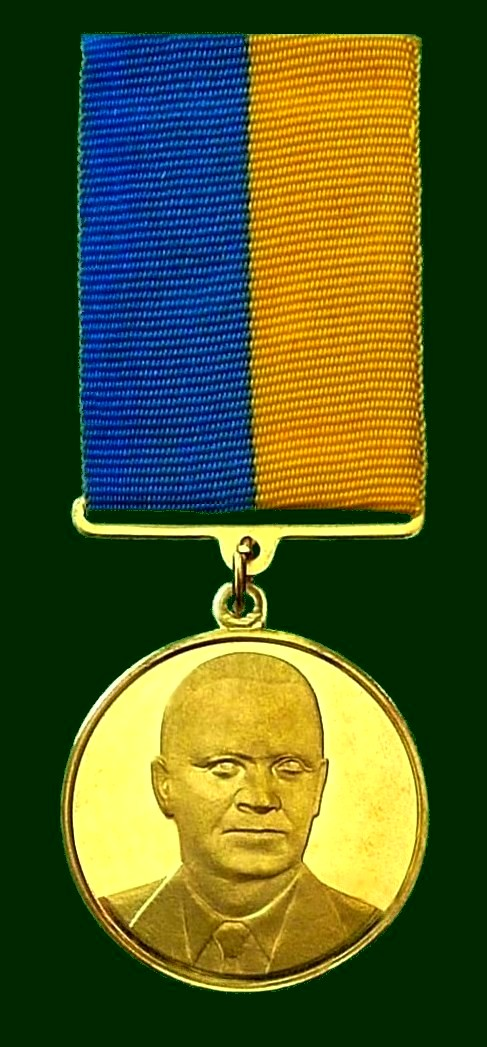 Honorary award of professor A. D. Motornyy